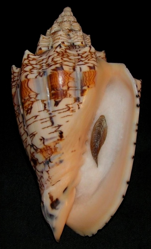 Photograph of the seashell Voluta ebraea Linnaeus, 1758 (underside view) / Origin: Brazil. Natal, Rio Grande do Norte state.